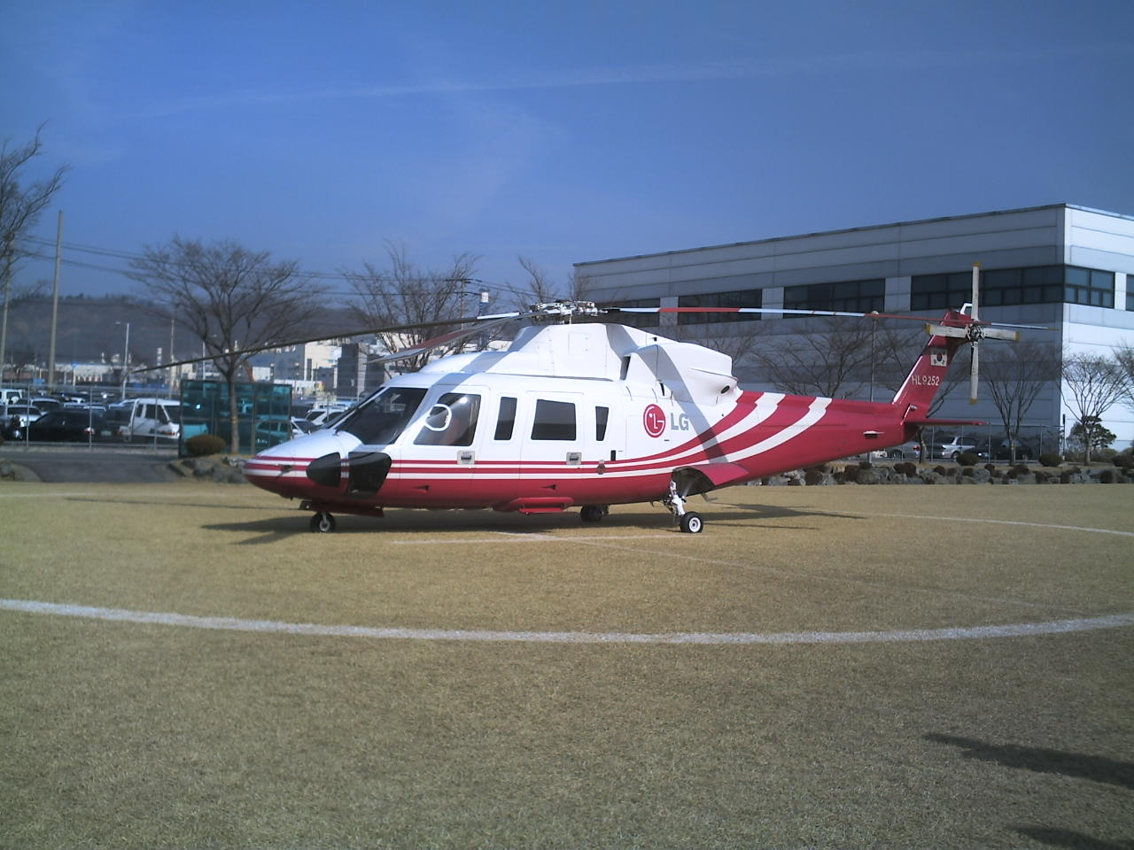 Sikorsky S-76C owned by LG Electronics as VIP transport at Gumi City, South Korea